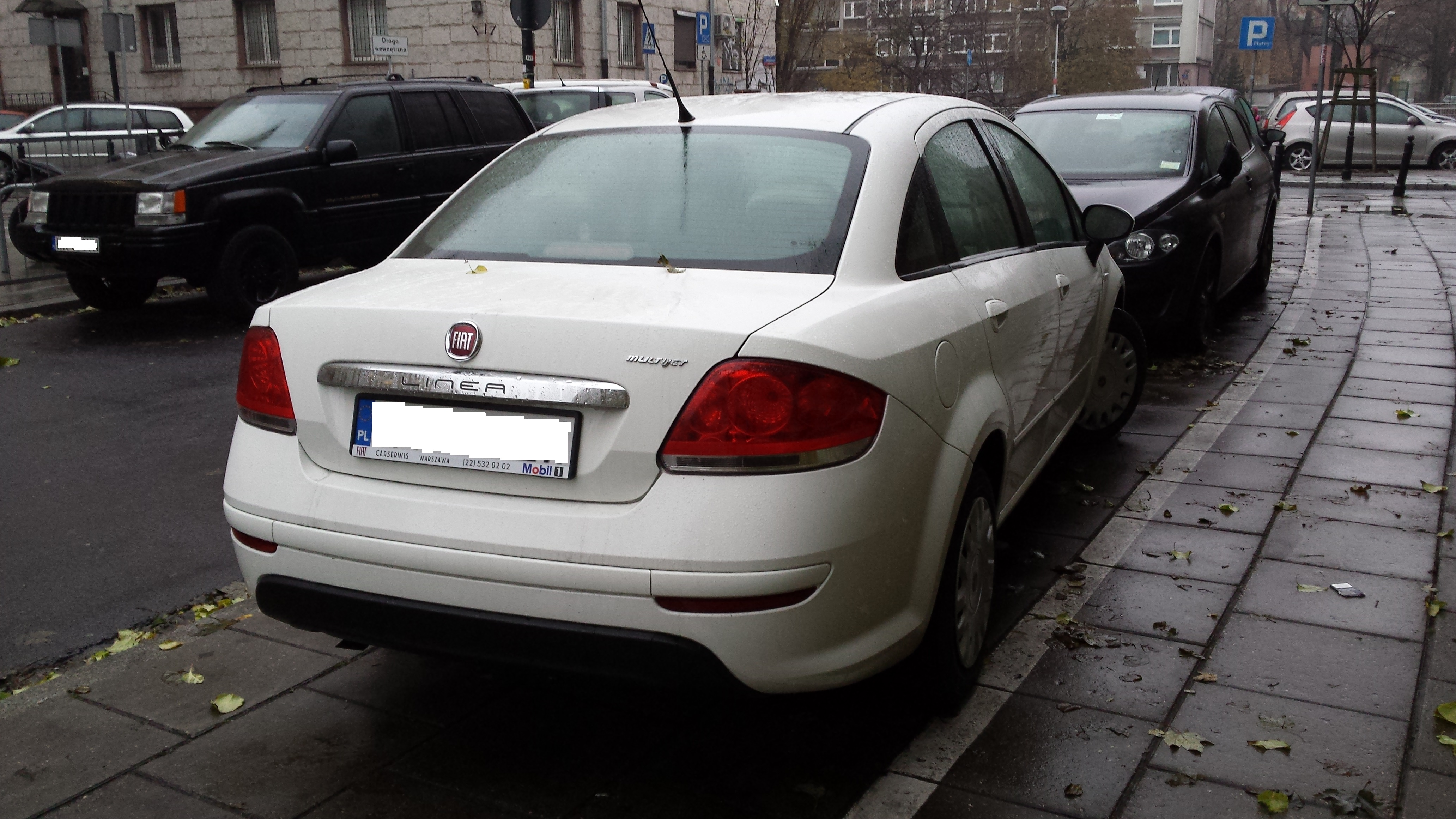 Fiat Linea in Warsaw